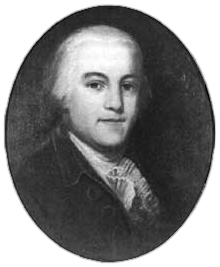 Edward Rutledge a Signer of the American Declaration of Independence